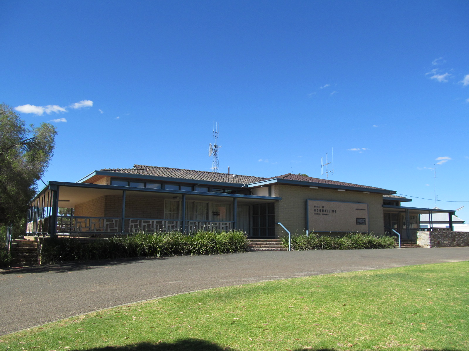 Shire of Goomalling offices and chambers, Goomalling, Western Australia